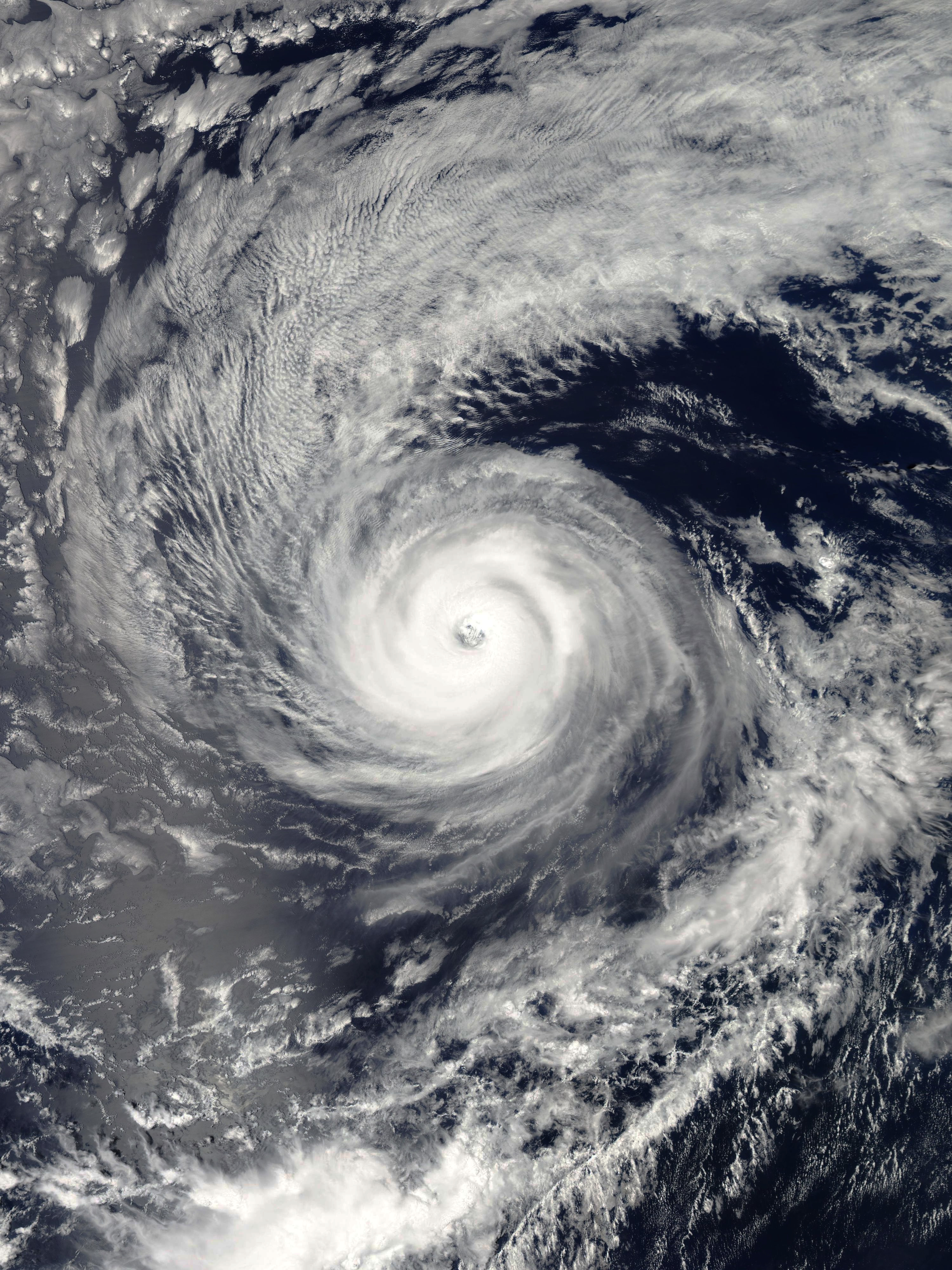 Hurricane Olivia near peak intensity well east of the Hawaiian Islands late on September 6, 2018